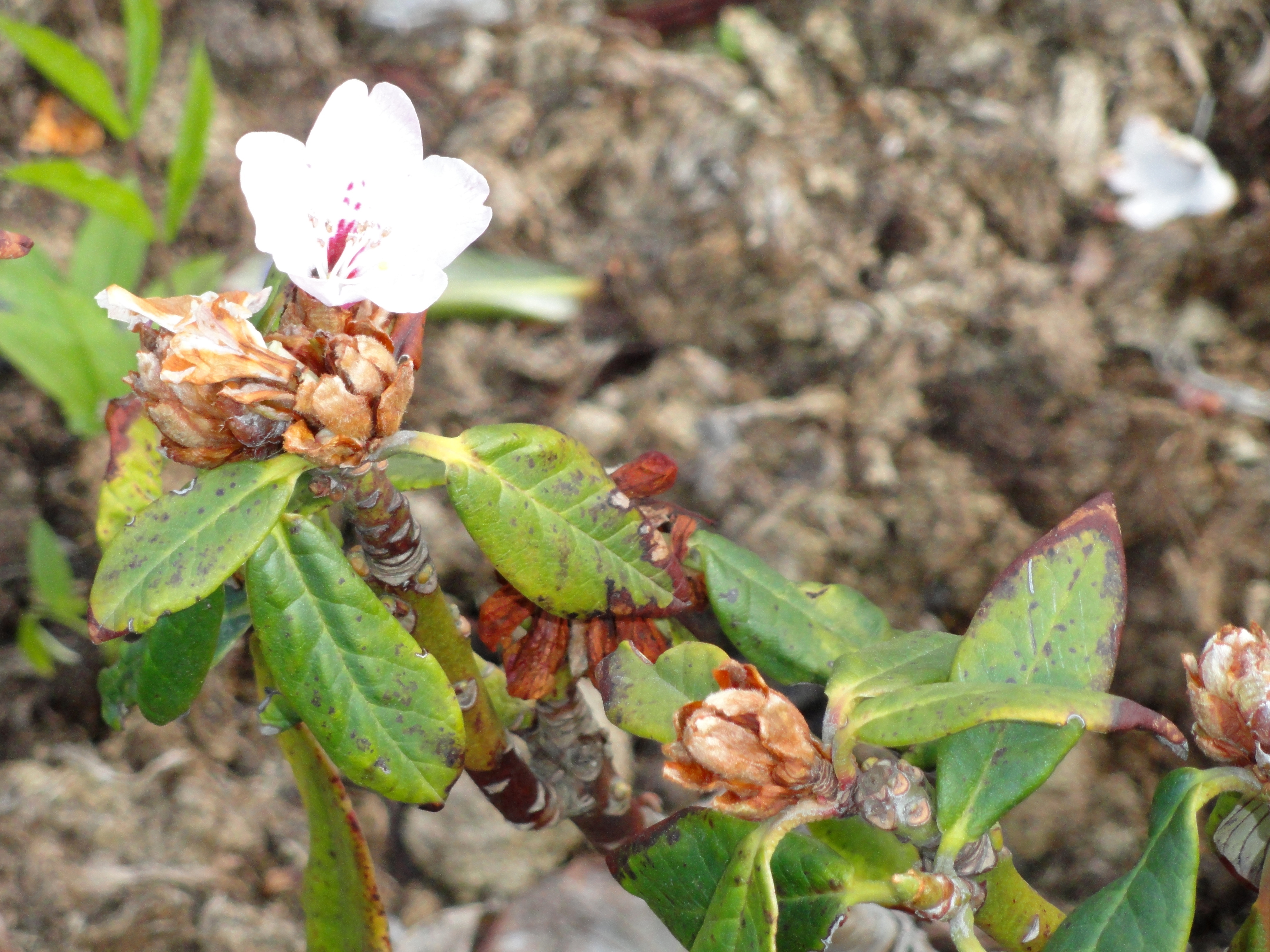 Rhododendron specimen in the University of Copenhagen Botanical Garden, Copenhagen, Denmark.